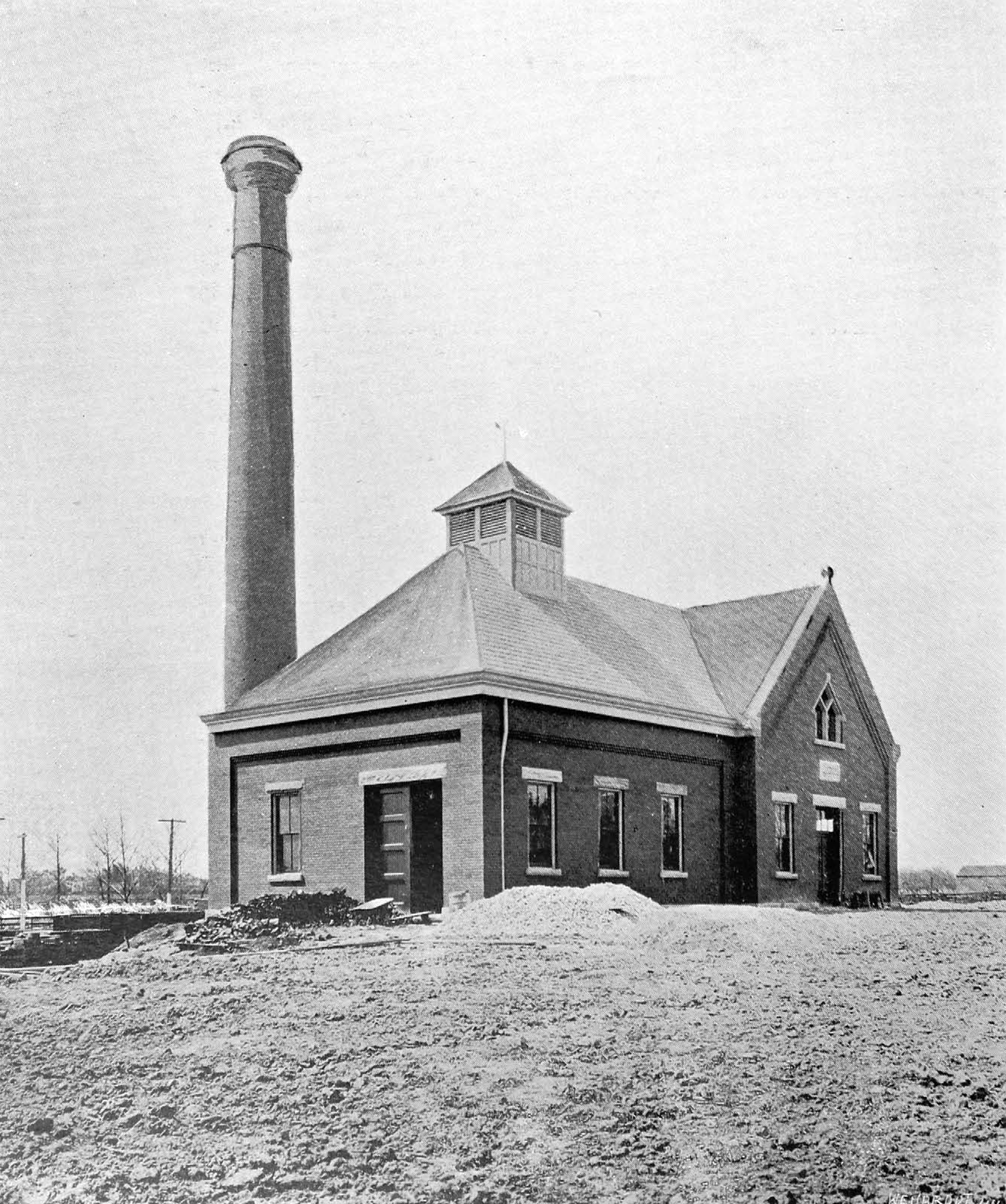 This municipal water works pump station house at the southwest corner of Harris Avenue and Forest Avenue in Norwood, Ohio pumped artesian well water to a hilltop water tower on Indian Mound. The pump house was built in 1894, the same year this photo was taken. It's likely the pump house was not fully completed at the time this photograph was taken as it appears the chimney and portions of the roof were sketched by the photographer or publisher.